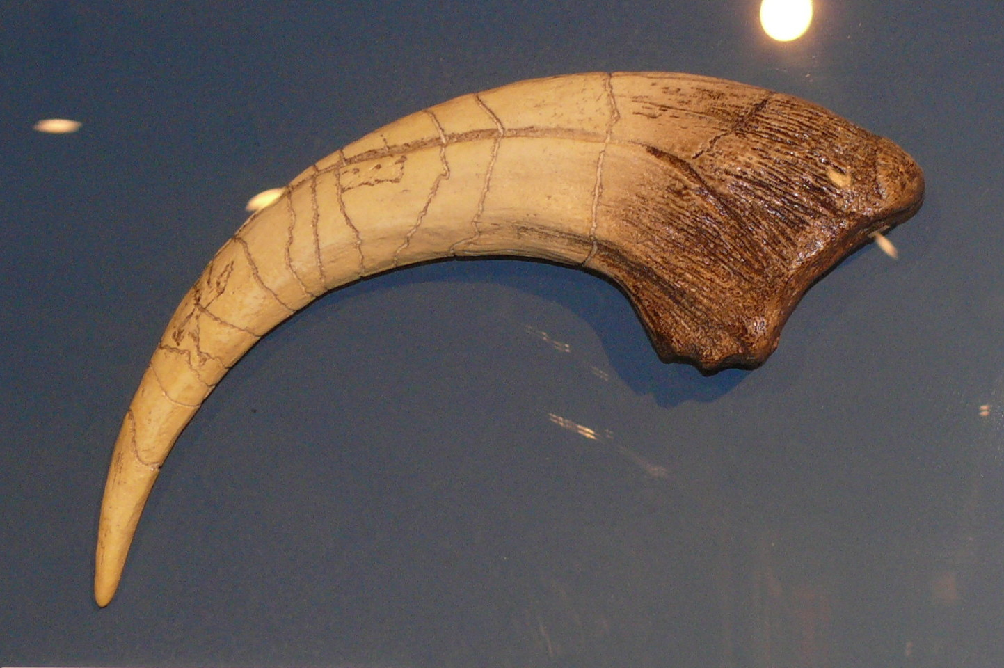 Claw Megaraptor